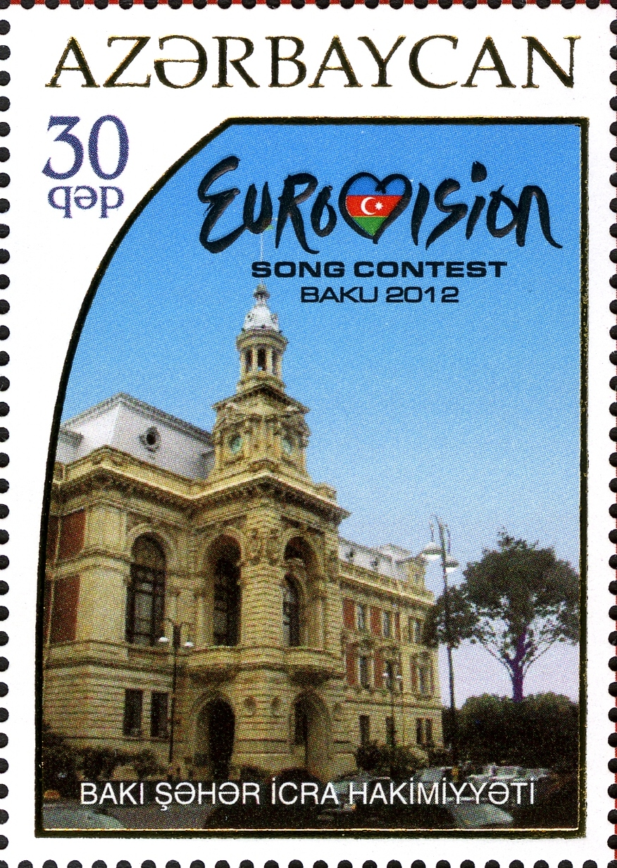 "Eurovision - 2012" song contest